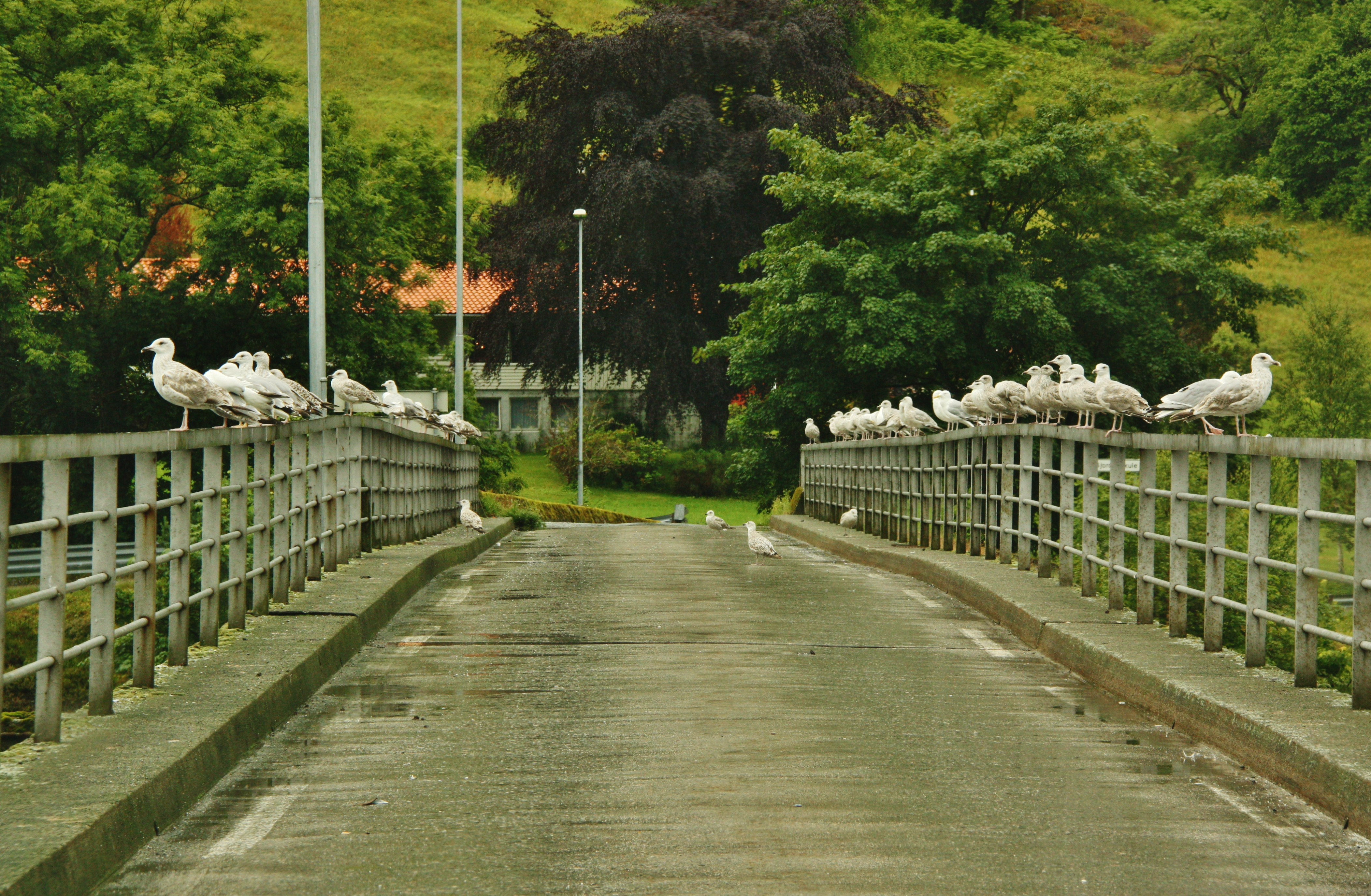 Seagulls on Føsund Bridge in Bjordal, Høyanger, Sogn og Fjordane, Norway.